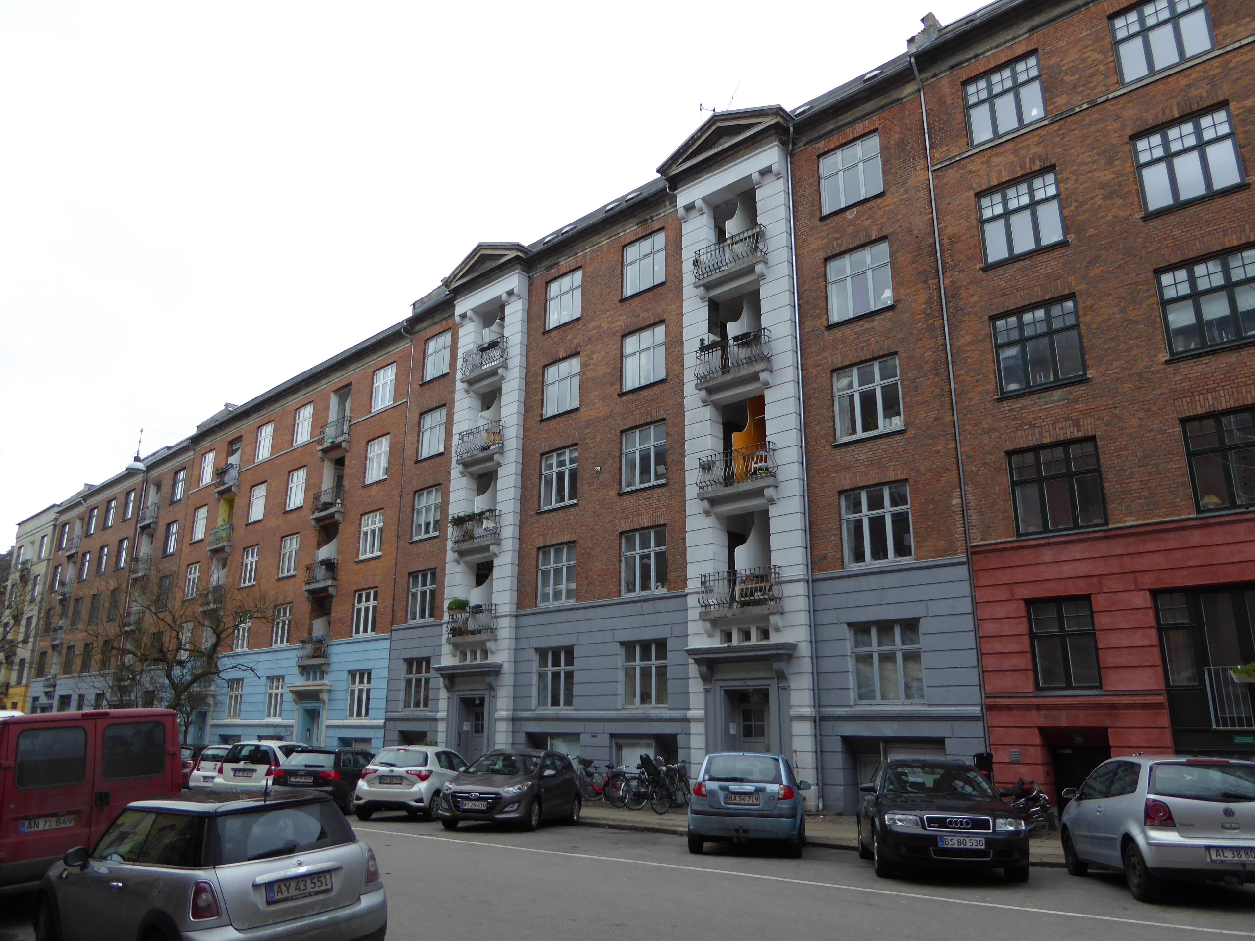 Apartment building at Vølundsgade in Nørrebro in Copenhagen.